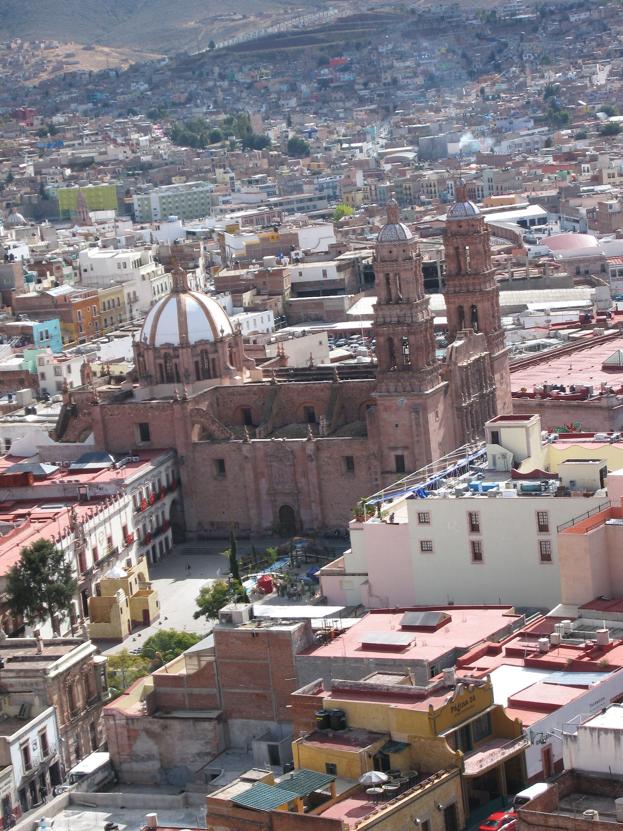 Cathedral of the Assumption in Zacatecas